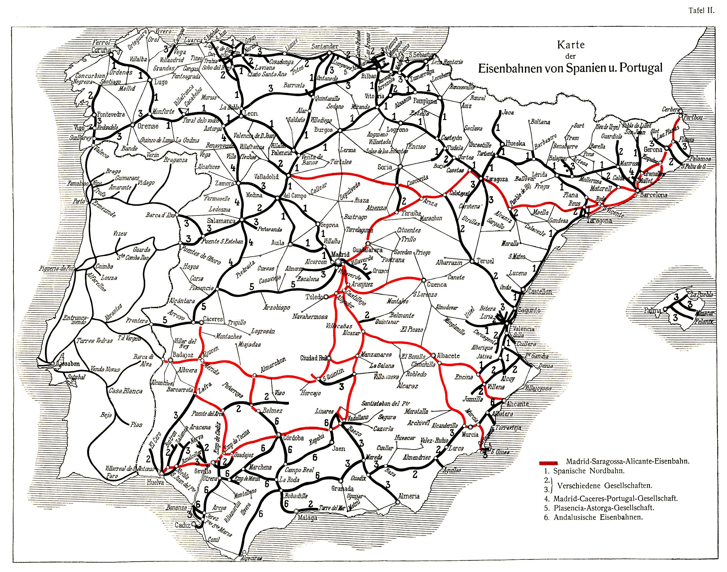 Map of the portuguese and spanish railways; taken from Röll, Freiherr von: Enzyklopädie des Eisenbahnwesens, Band 9. Berlin, Wien 1921, S. 85-94.